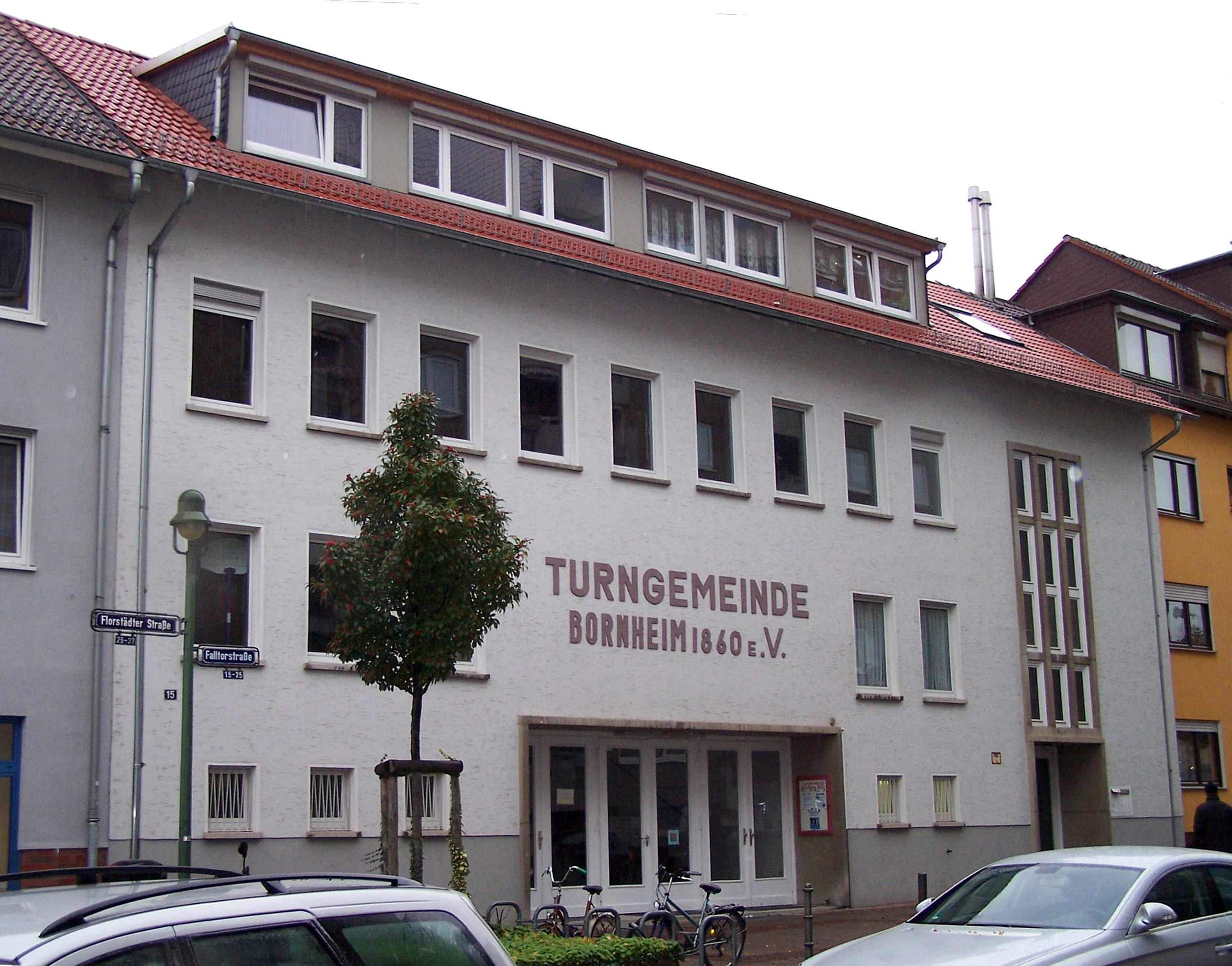 Gymnasium of the Turngemeinde Bornheim in the Falltor Street in Frankfurt am Main-Bornheim